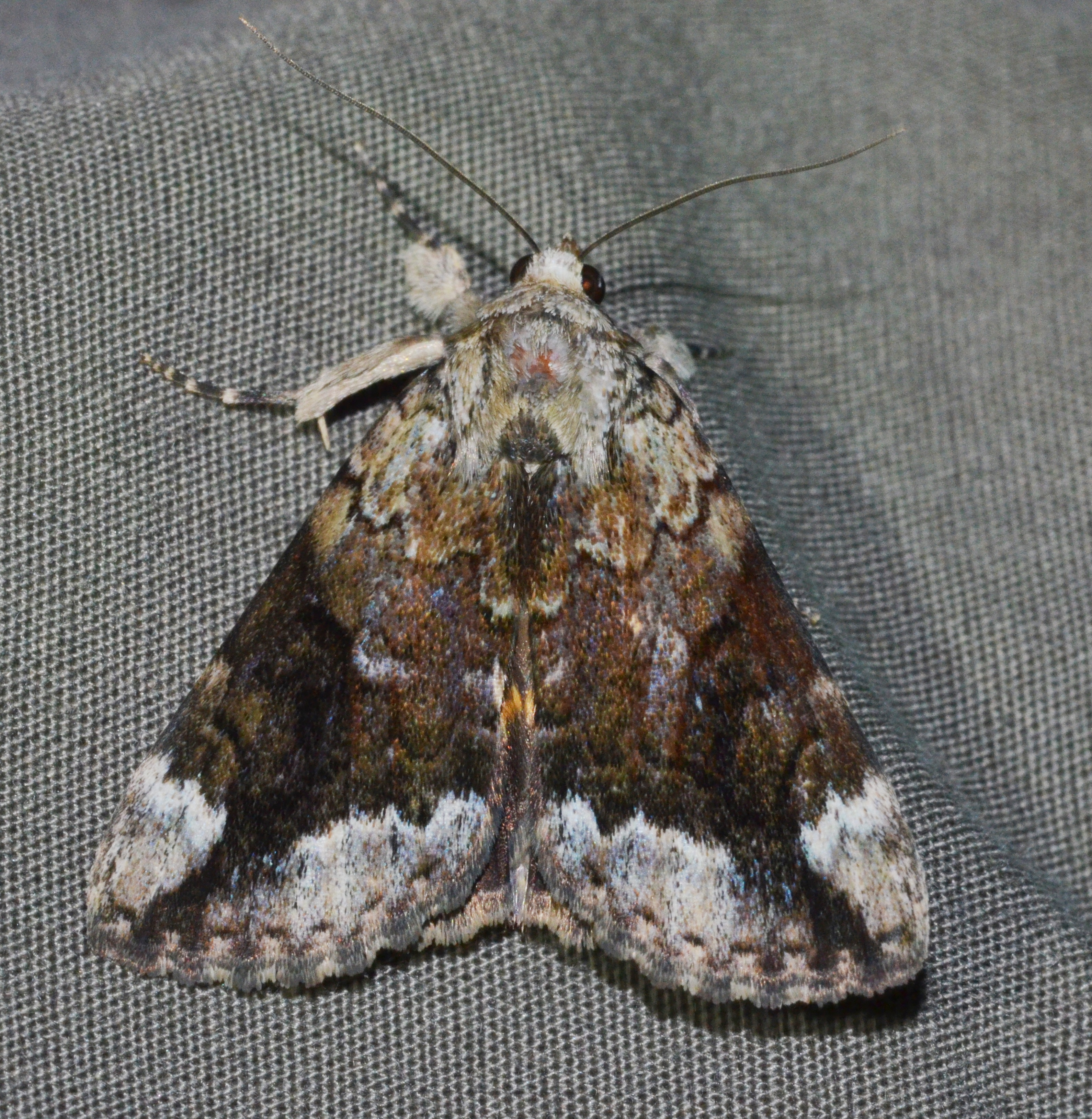 Mothing Night 6/16/14